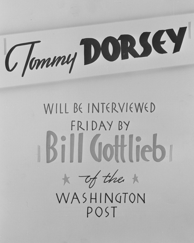 Gottlieb, William P., 1917-, photographer. [Poster, Washington, D.C., between 1938 and 1948] 1 negative : b&w ; 3 1/4 x 4 1/4 in. Notes: Gottlieb Collection Assignment No. 114 Purchase William P. Gottlieb Forms part of: William P. Gottlieb Collection (Library of Congress). Format: Film negatives--1930-1950. Rights Info: Mr. Gottlieb has dedicated these works to the public domain, but rights of privacy and publicity may apply. Repository: (negative) Library of Congress, Prints & Photographs Division, Washington D.C. 20540 USA, Part Of: William P. Gottlieb Collection (DLC) 99-401005 General information about the Gottlieb Collection is available at Persistent URL: Call Number: LC-GLB13- 1094 This work is from the William P. Gottlieb collection at the Library of Congress. Rights and restrictions.In accordance with the wishes of William Gottlieb, the photographs in this collection entered into the public domain on February 16, 2010.